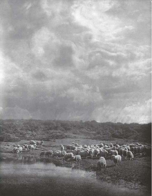 Storm clearing off